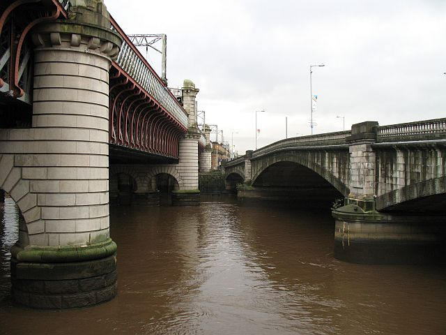 King George V Bridge Second Caledonian Railway Bridge (left) and George V Bridge are very close together.